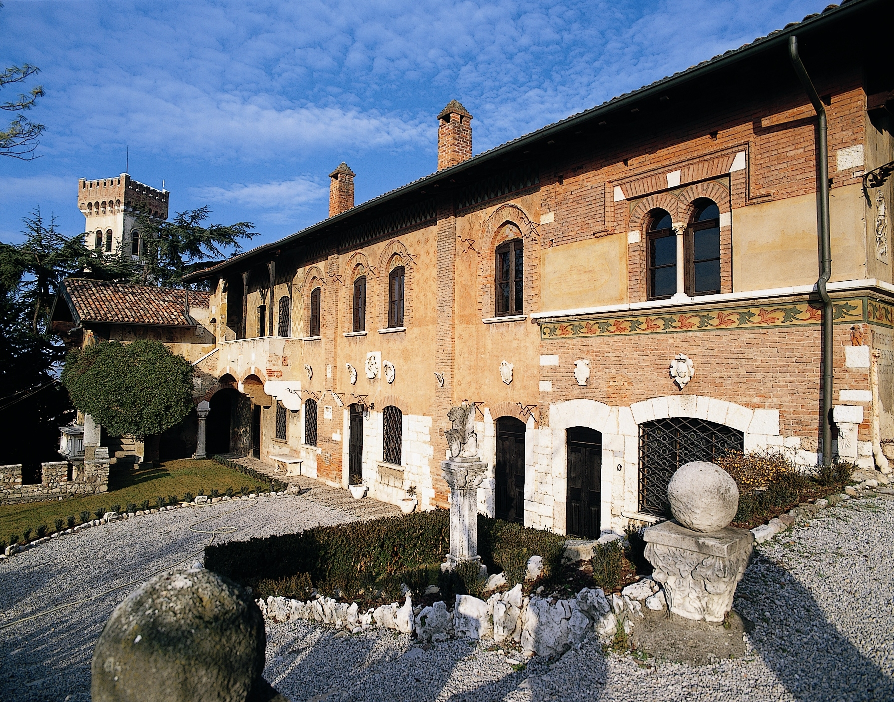 The inner facade of the Podesta's House